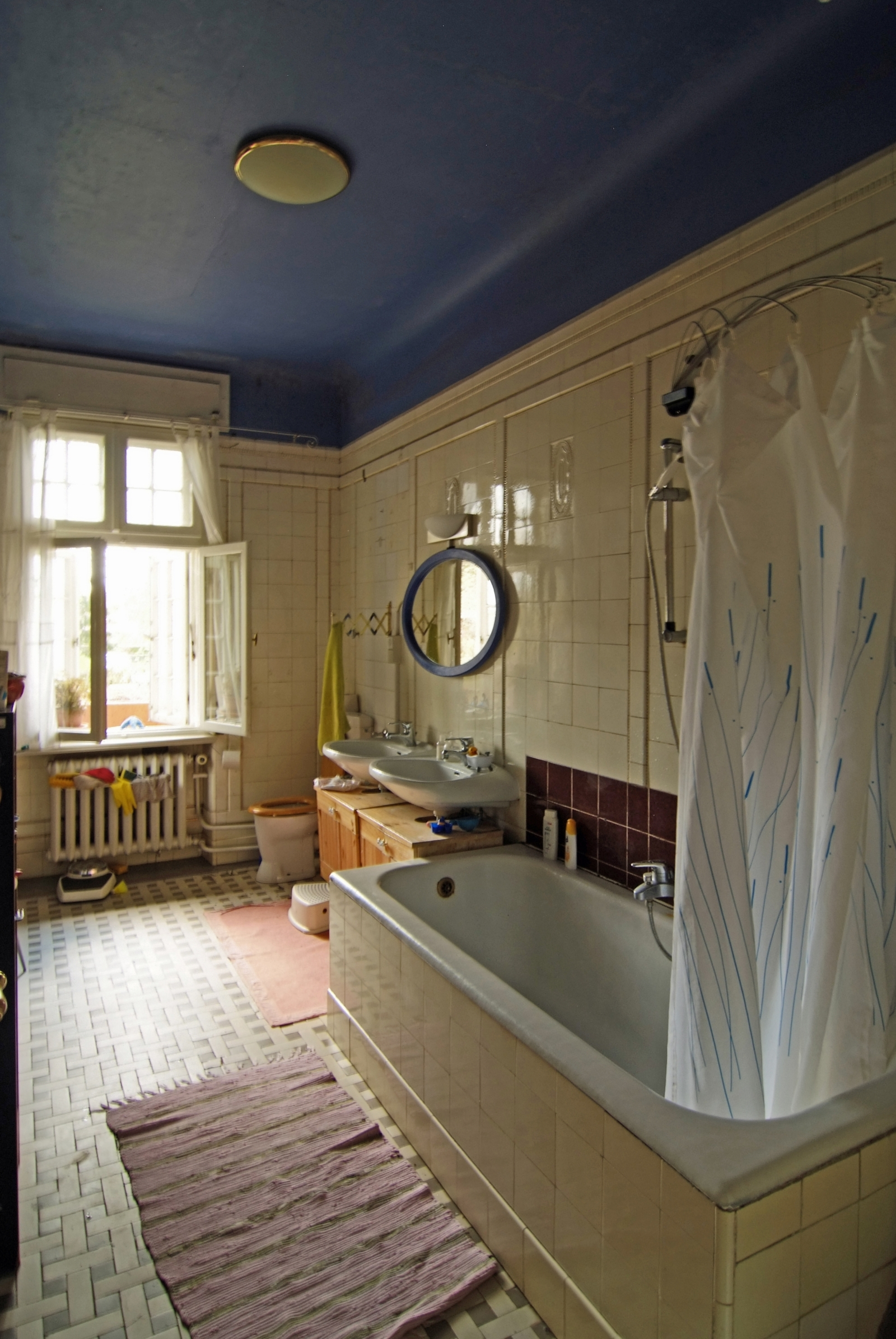 Cultural monument No. 911 in Hamburg, Germany